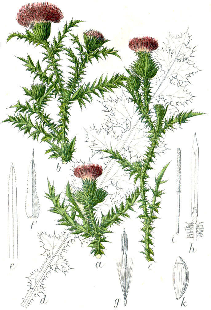 Carduus acanthoides L. Original Caption Akanthusblätterige Distel, Carduus acanthoides